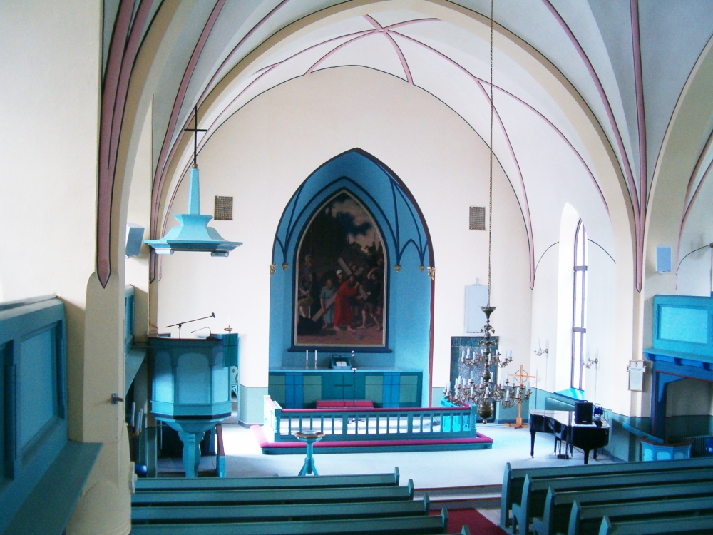 The interior of the Church of Nilsiä, Finland, built in 1905 and designed by Josef Stenbäck.